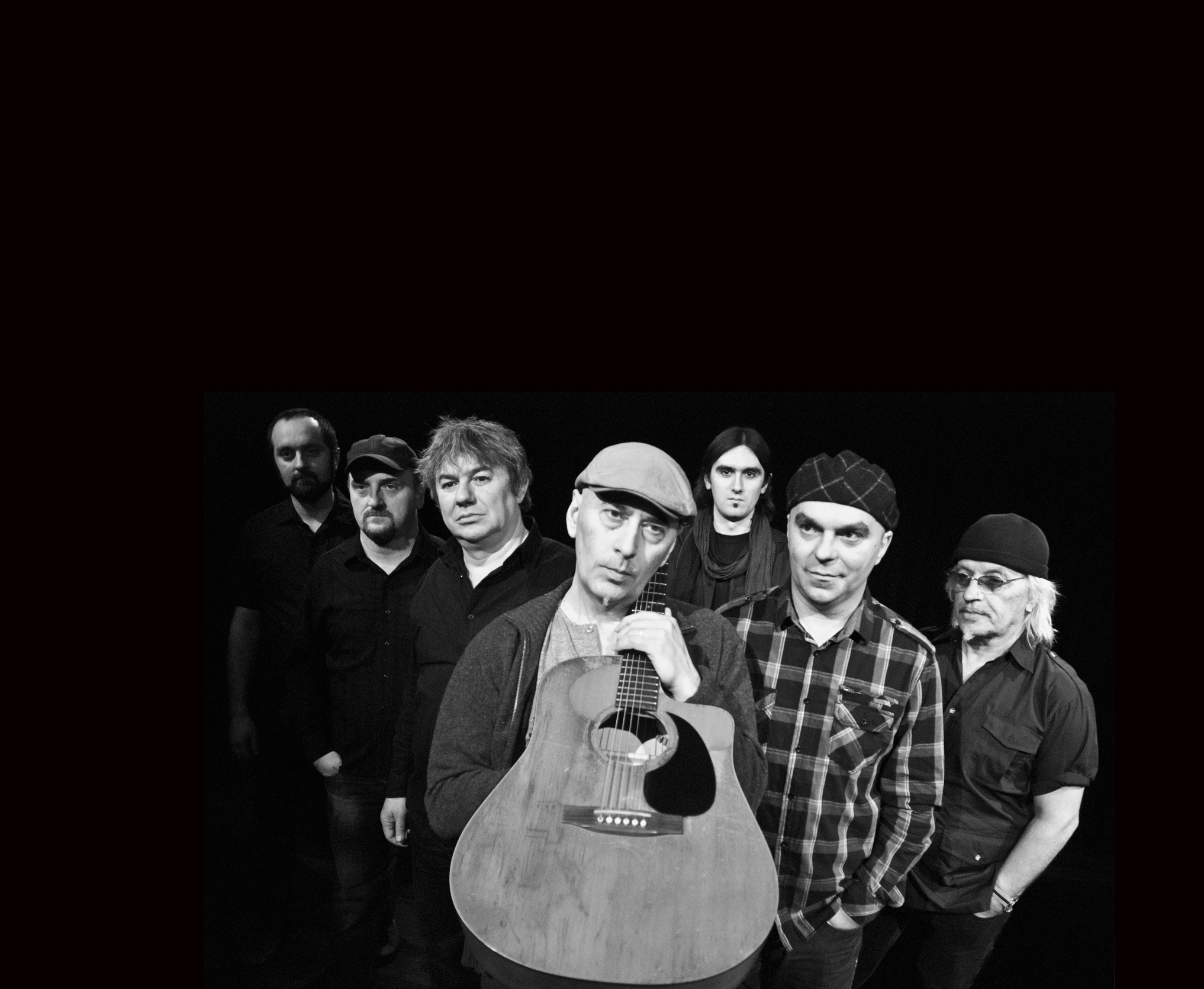 Mostar Sevdah Reunion